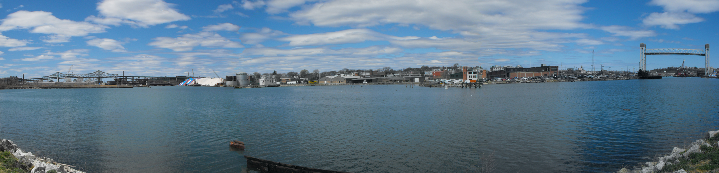 View across the Chelsea River toward Chelsea, MA from East Boston, MA. Condor Street Urban Wild